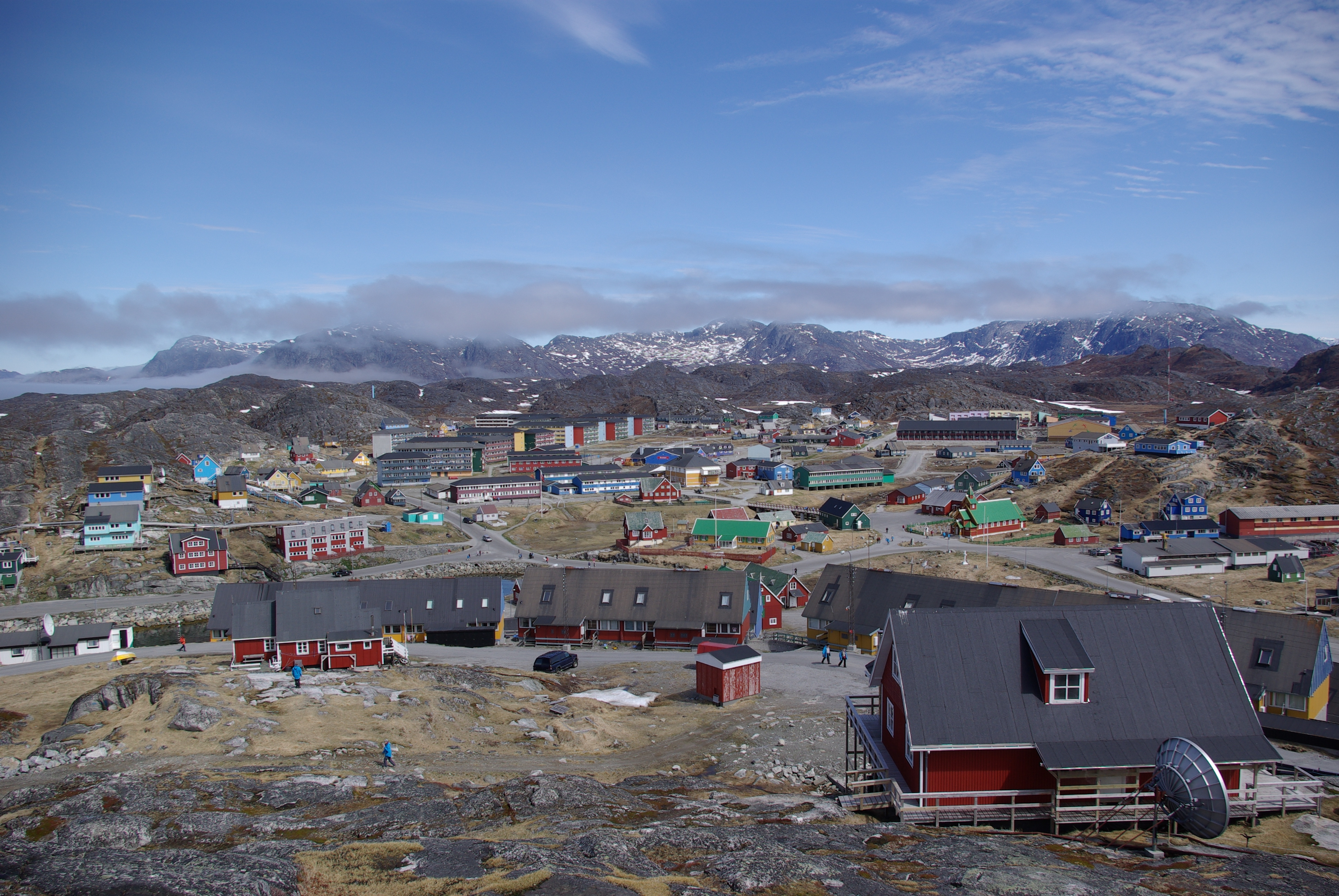 Paamiut, the centrum.